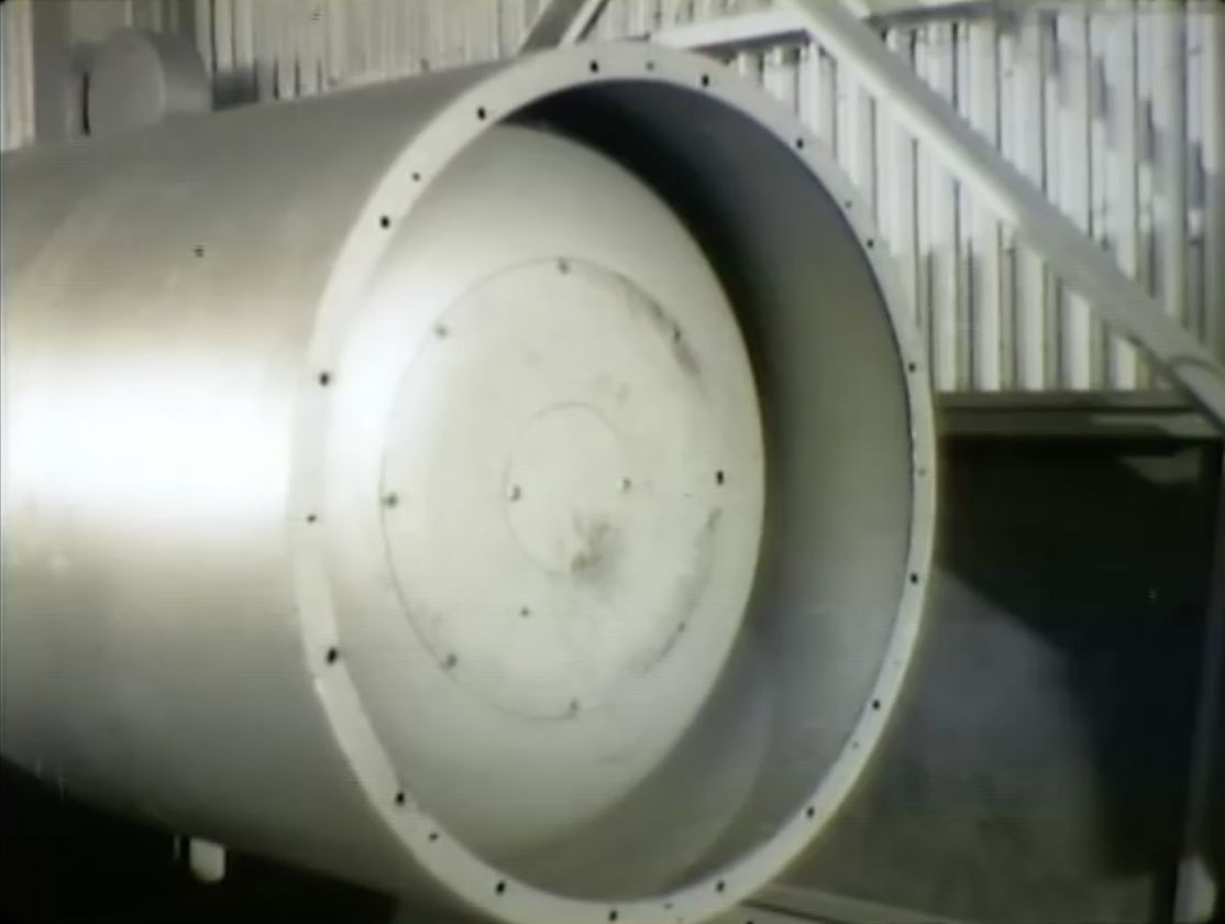 Operation Castle, Bravo event. The cylindrical end of the Shrimp device.